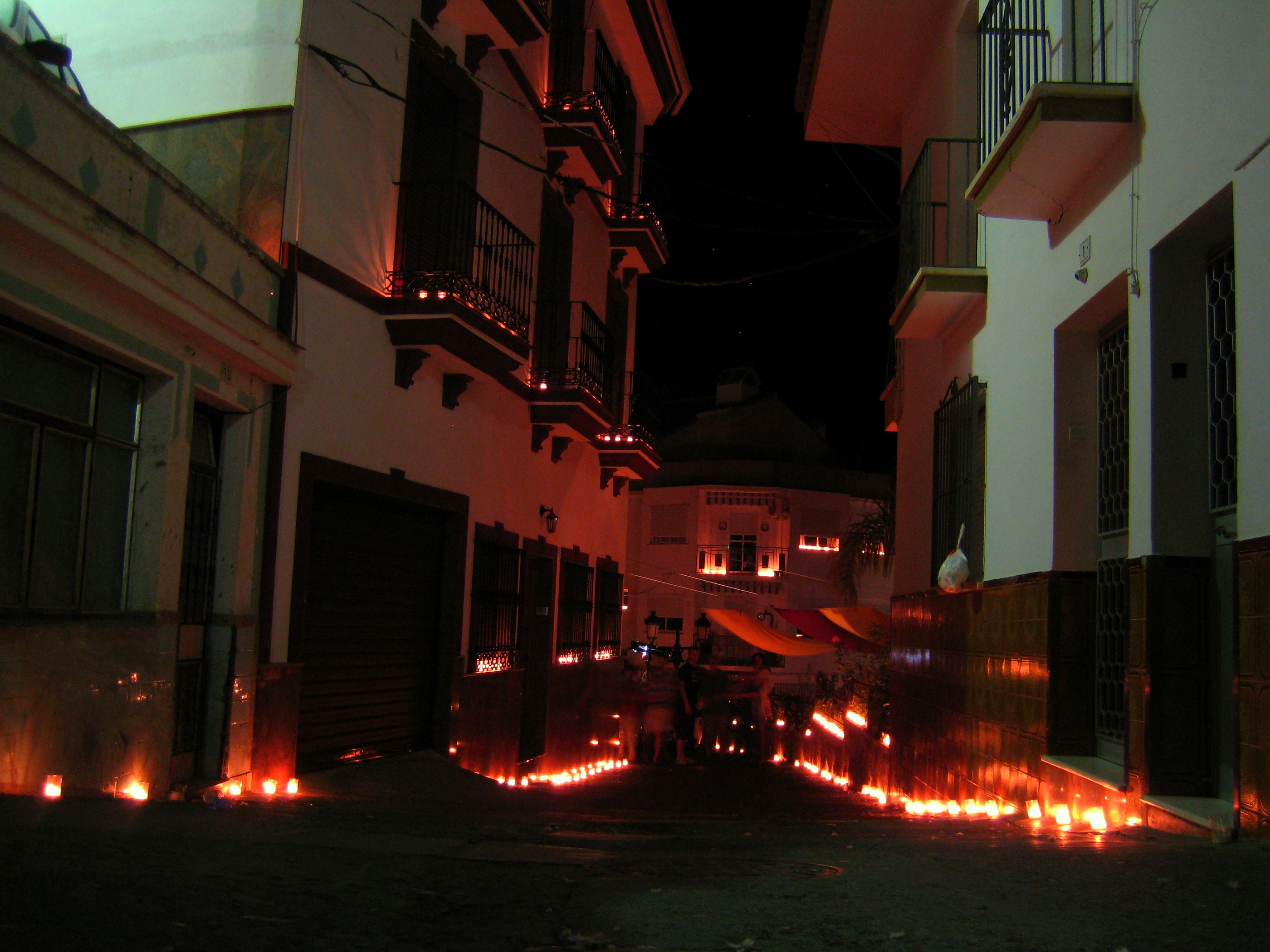 Luna Mora Festival of Guaro, Málaga, Spain